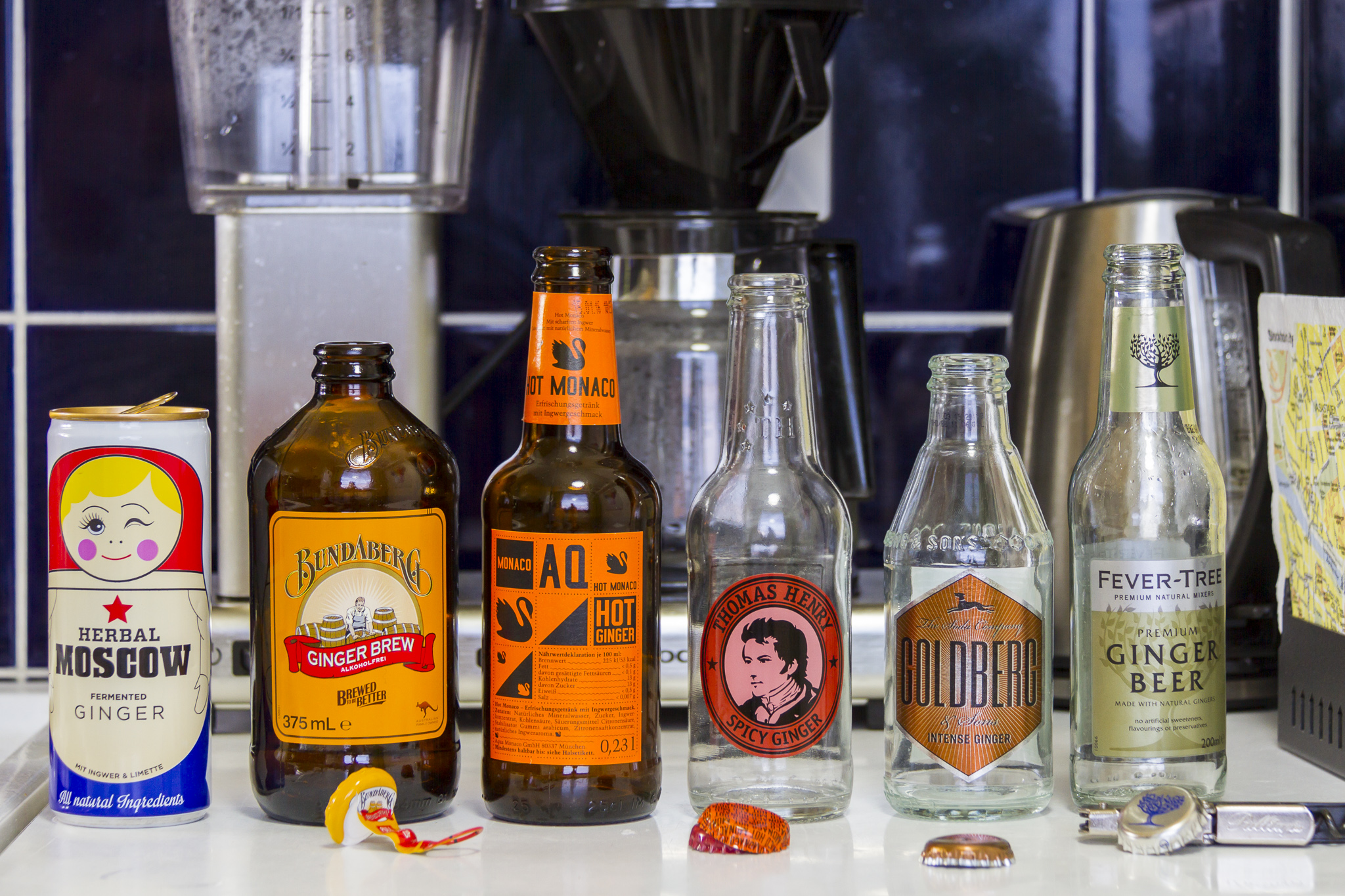 Assortment of ginger beer bottles containing Moscow Herbal, Bundaberg, Aqua Monaco, Thomas Henry, Goldberg and Fever Tree bottles.